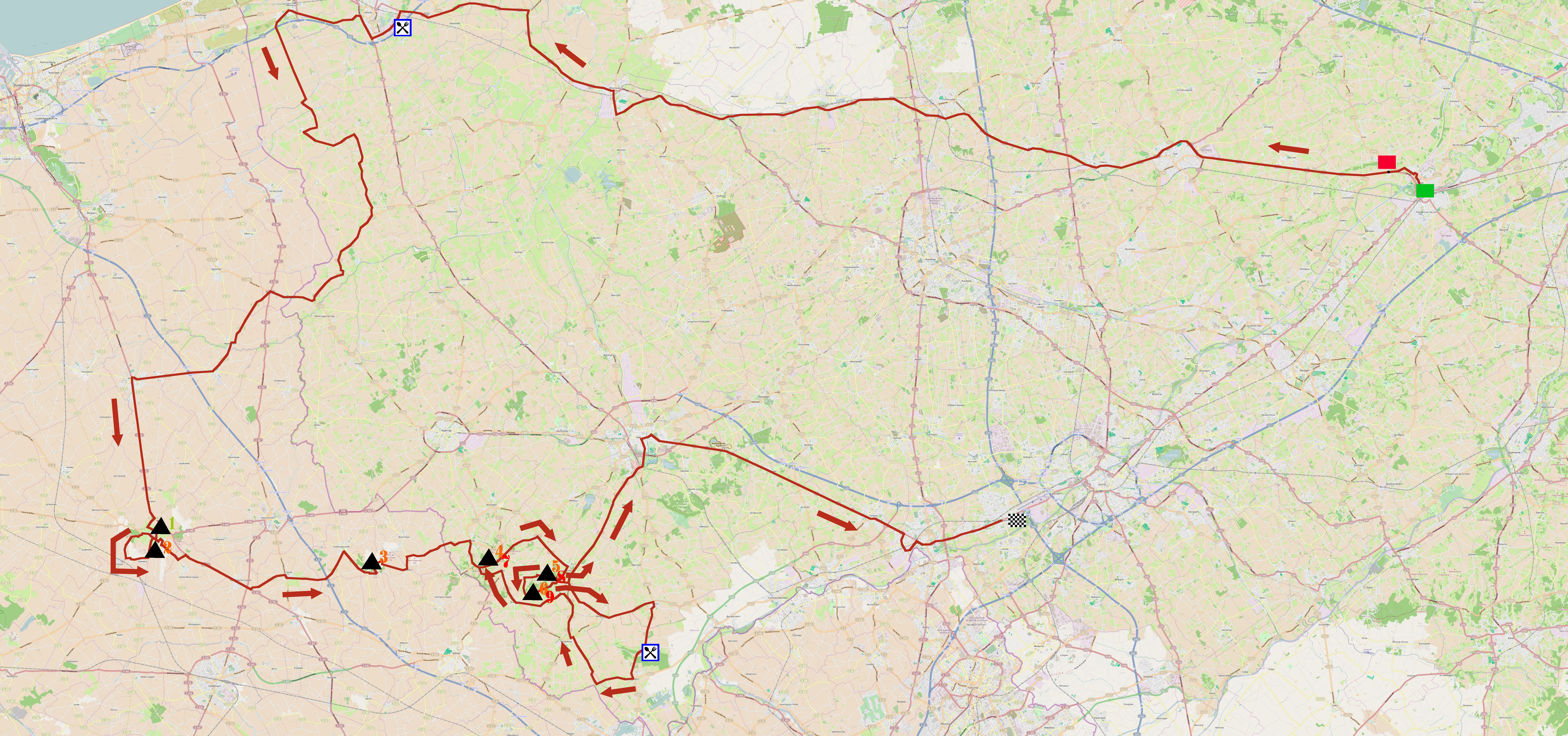 Parcours du Gand-Wevelgem 2015. This map may be incomplete, and may contain errors. Don't rely solely on it for navigation.